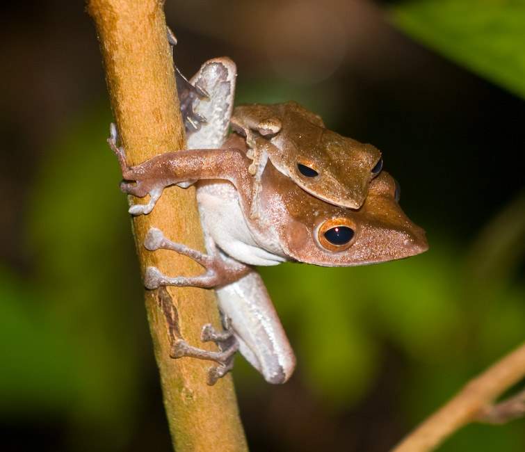 Bako National Park, near Kuching, Malaysia